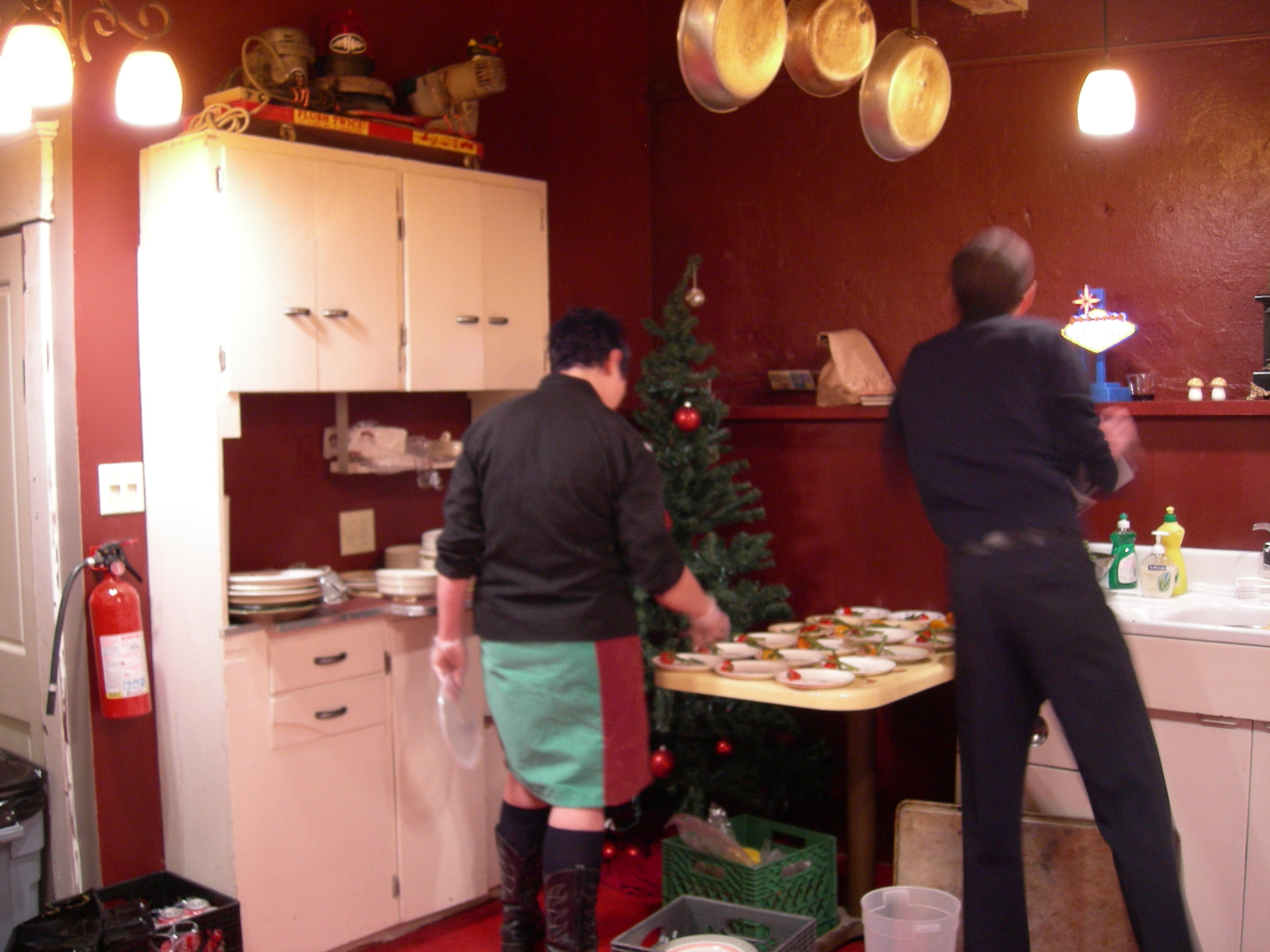 Kitchen at "The Stables" behind Full Throttle Bottles, Georgetown, Seattle, Washington. The Stables is a quasi-bar and event space behind Full Throttle Bottles on Airport Way in the Georgetown neighborhood of Seattle, Washington. The building is named for a long-gone nearby stable for The Meadows when the latter was a horse racing track. Apparently, The Stables is not the historical stable building, which was about 30-40 meters south. The present building was actually the bakehouse for the Fickeisen family's Georgetown Bakery in what is now (2020) the Full Throttle Bottles location.